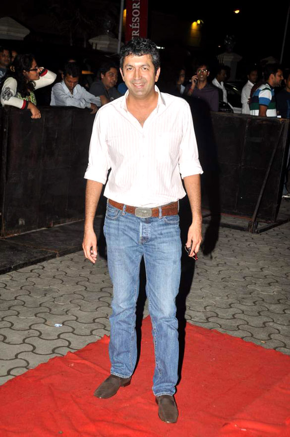 Kunal Kohli at the special screening of 'Bol Bachchan'